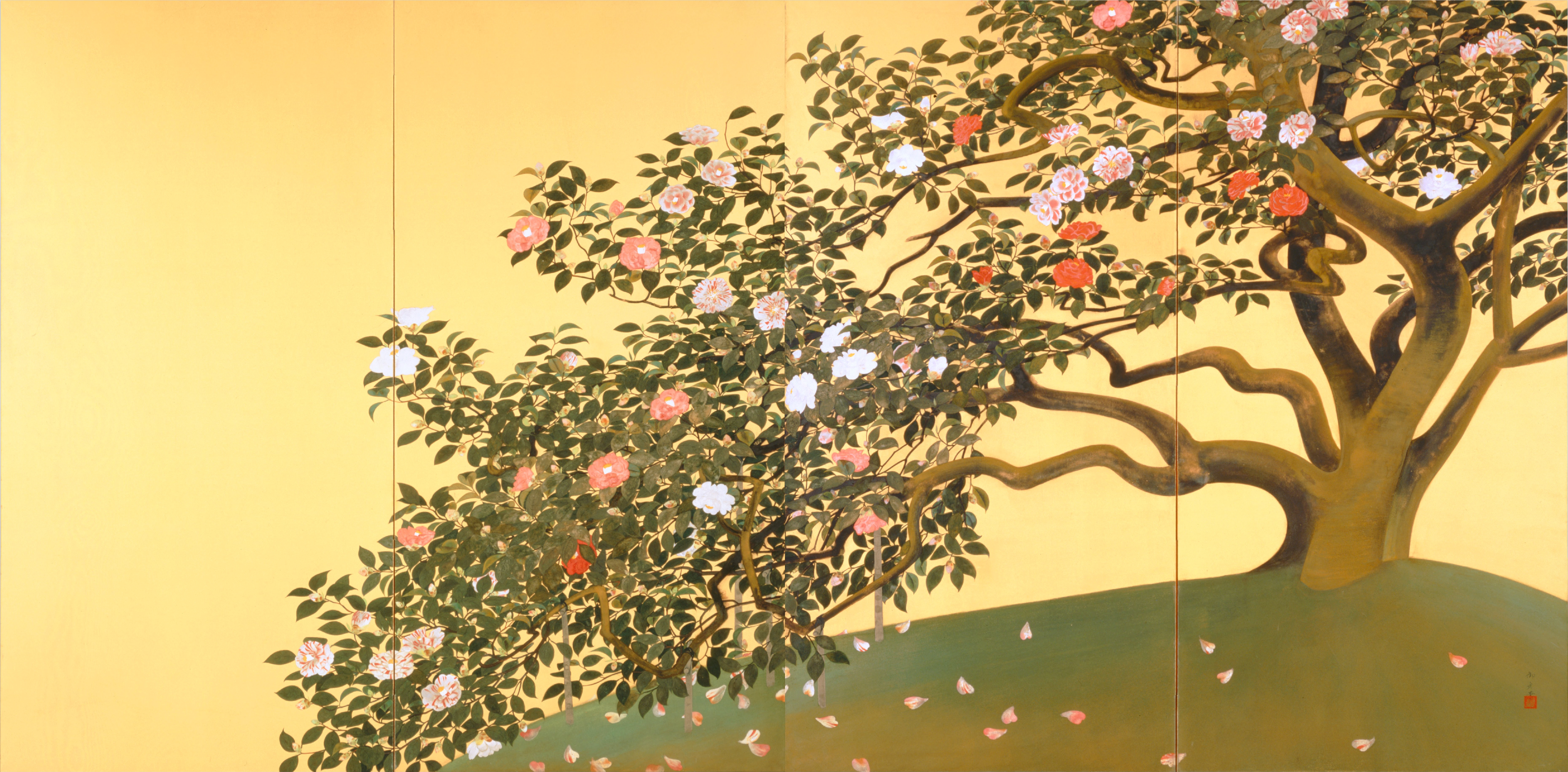 folding screen with camelia